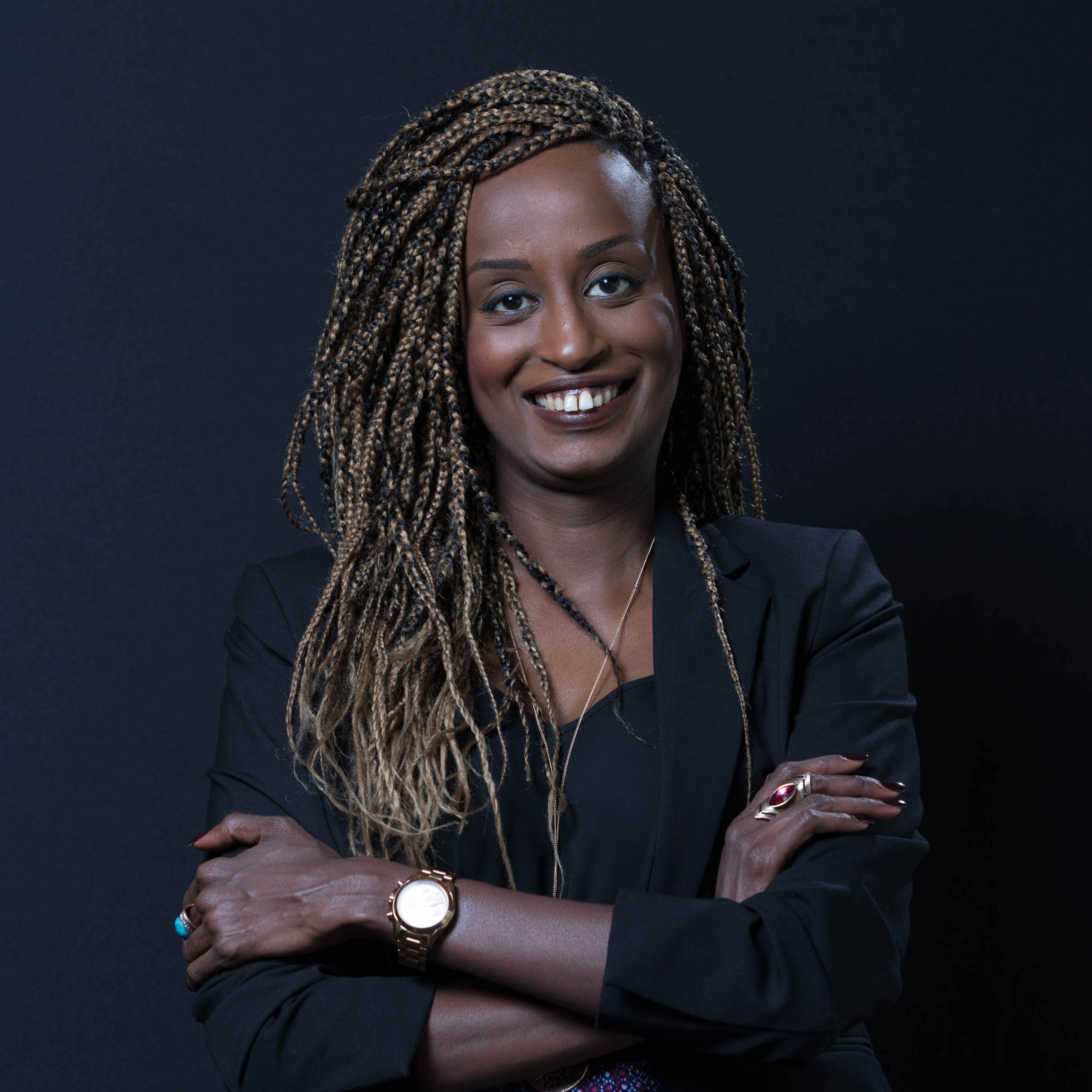 Leyla Hussein is a Somali psychotherapist, writer, specialist on female genital mutilation (FGM) and gender rights, and founder of the Dahlia Project, who is working to end violence against women and girls.